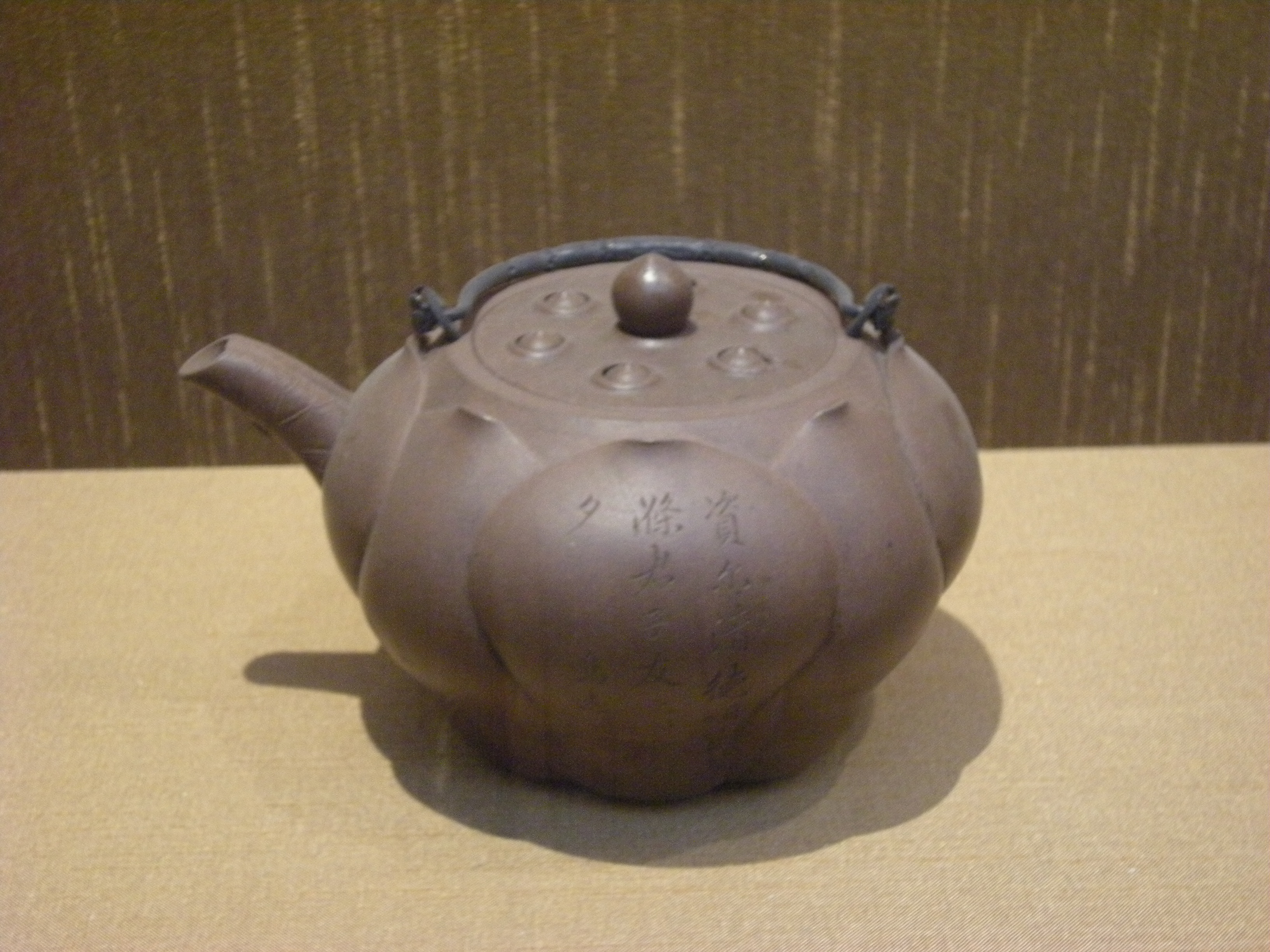 “Zisha”lotus-shaped teapot with silver handle(made by Chen mingyuan) in Suzhou museum。 Period：Qing Dynasty 中文（中国大陆）: 苏州博物馆藏清代陈鸣远款紫砂莲形银配壶陈鸣远，原名陈运，宜兴人，康熙时最有影响的陶艺大家，技艺精湛，塑镂兼长。开创壶体镌刻诗铭做装饰，署款以刻铭和印章并用，将传统绘画与书法艺术引入紫砂铭壶制作工艺，使壶艺、品茗和文人风雅情致融为一体，还擅塑造士人案头摆件及象生果品，惟妙惟肖。